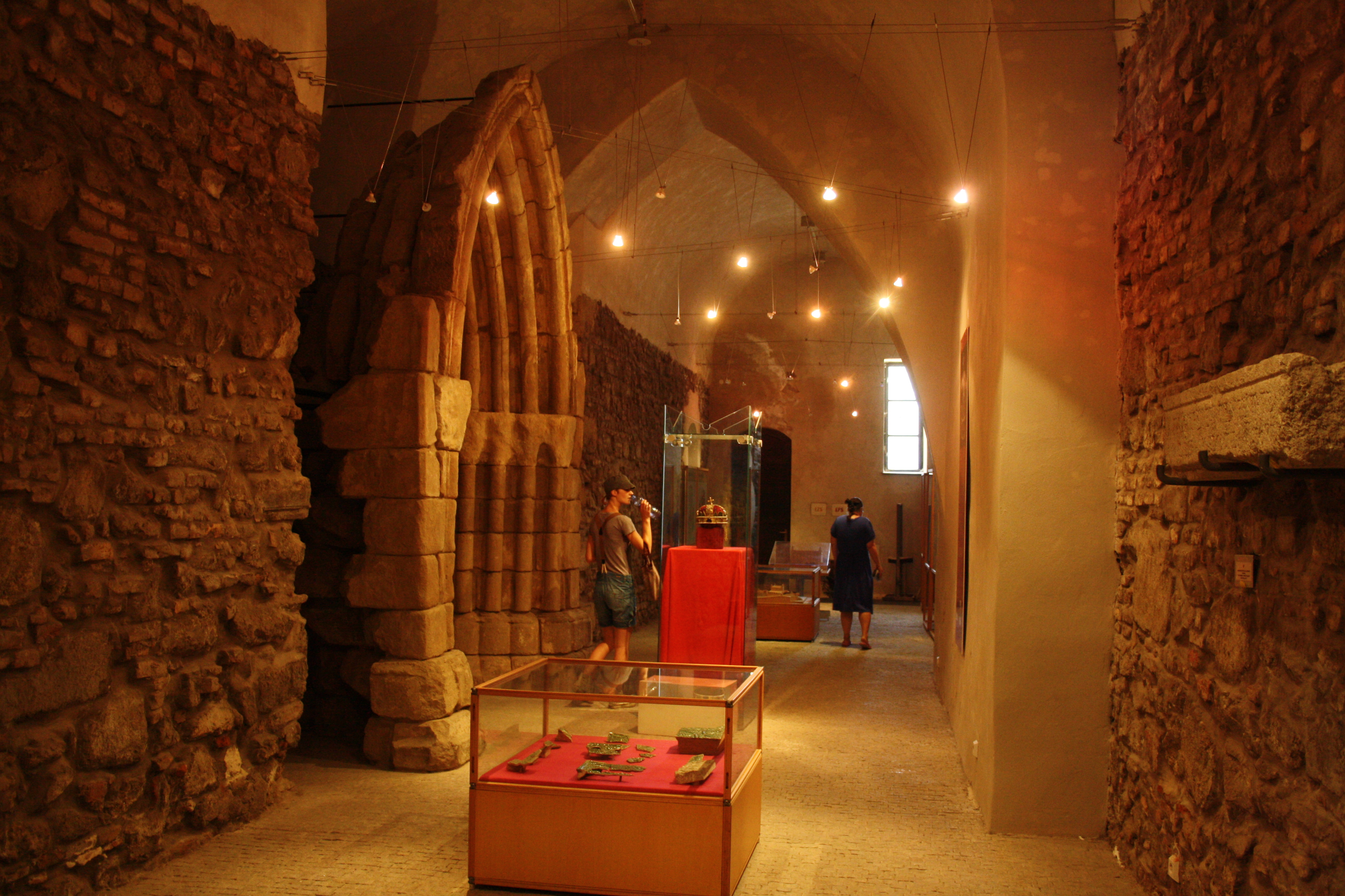 Interior of Slovak National Museum with crowns in Bratislava Castle.